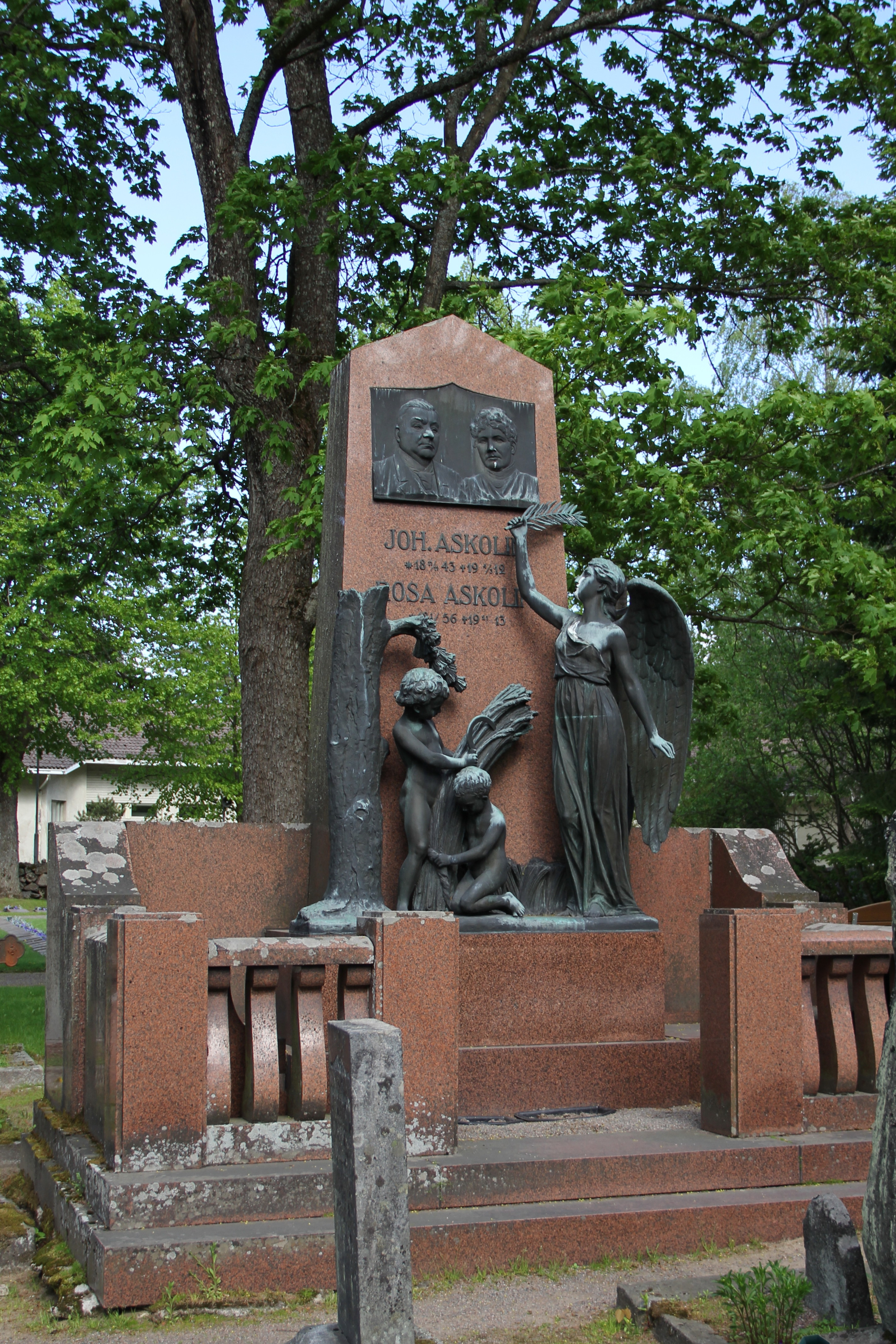 Näsinmäki cemetery, Porvoo, Finland. -Commercial counsellor Johannes Askolin family grave. Statue by Walter Runeberg (1838-1920).